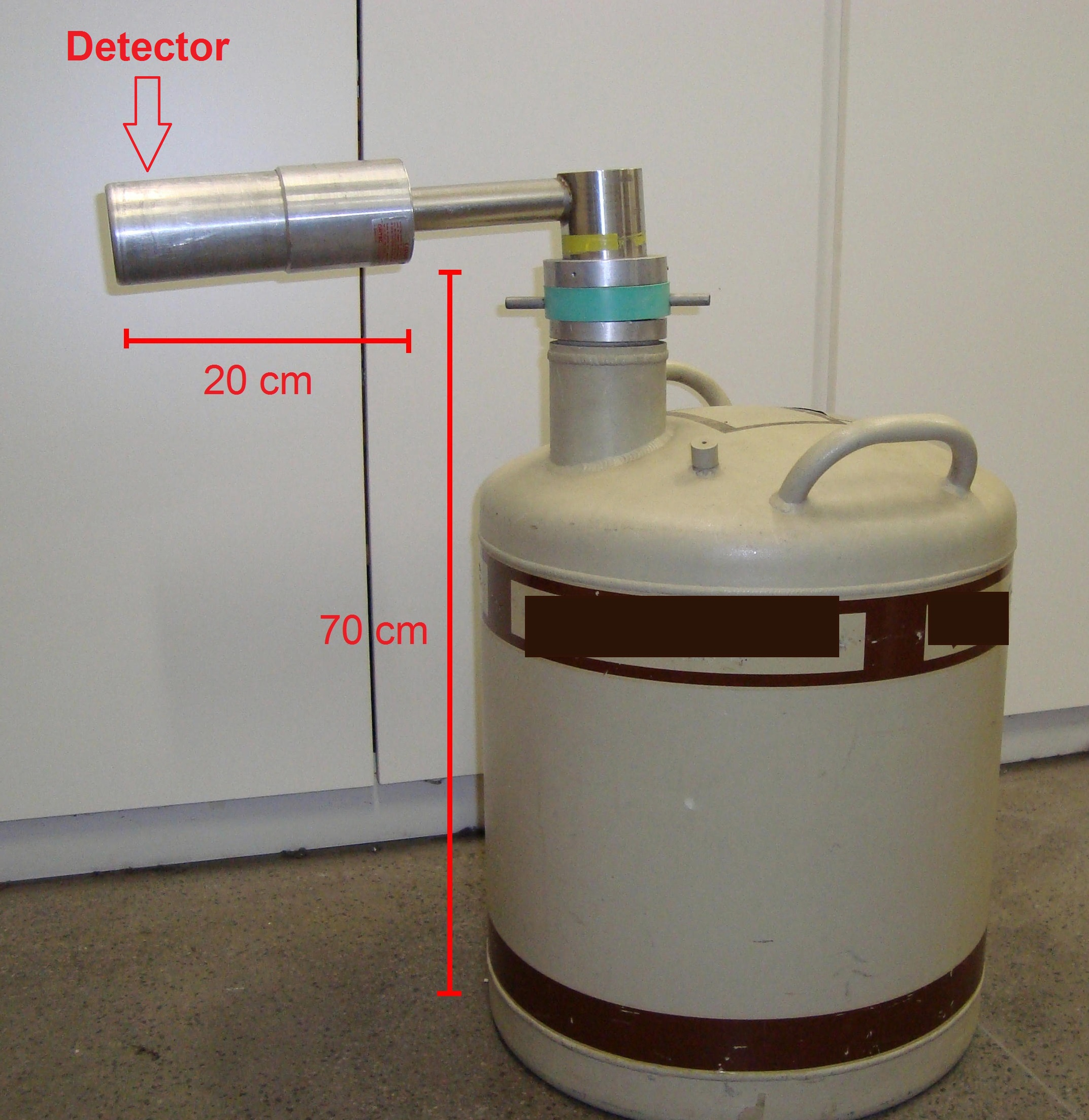 Semiconductor radiation detector high purity germanium type